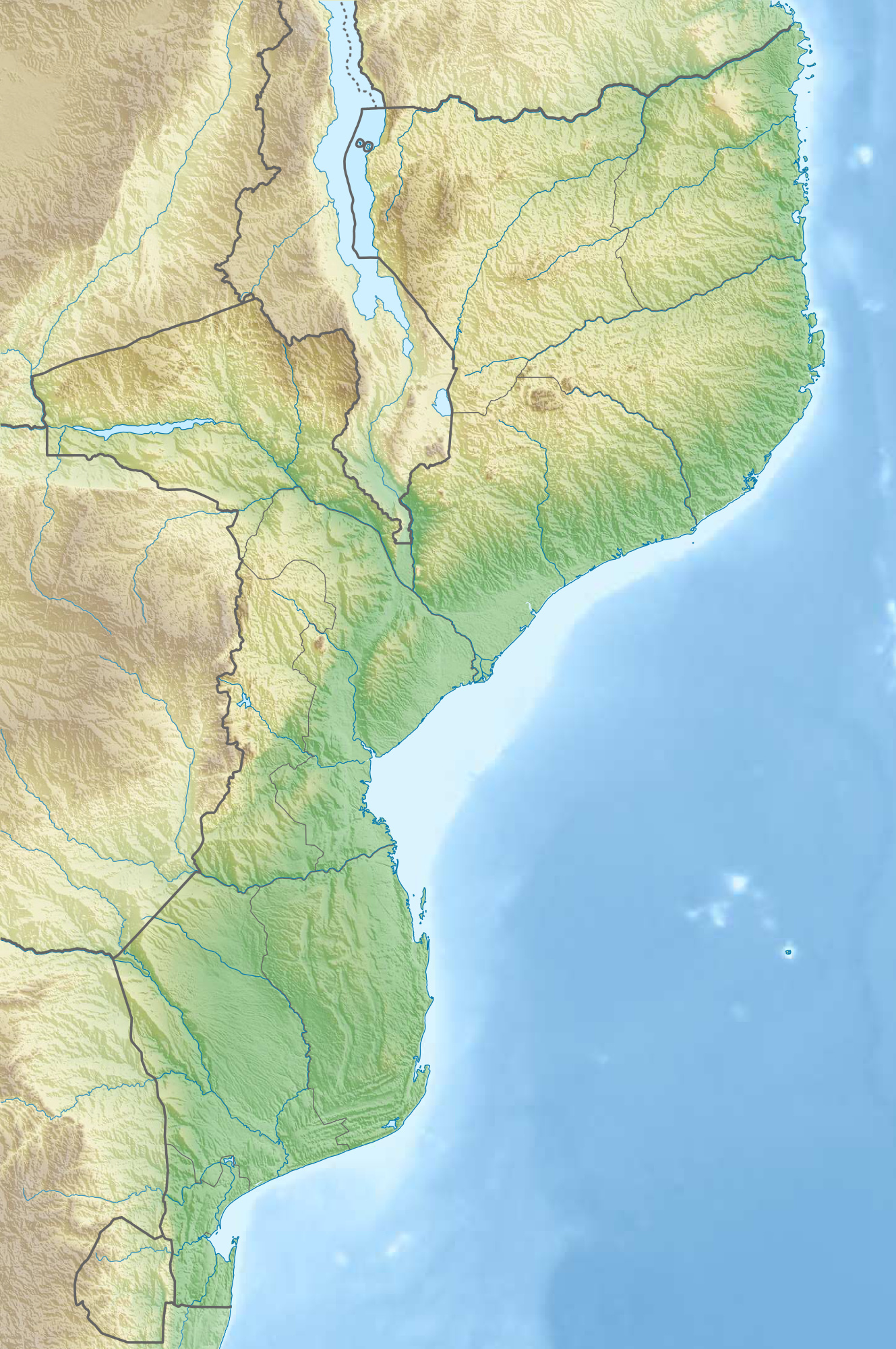 Physical location map of Mozambique Equirectangular projection, N/S stretching 105 %. Geographic limits of the map: N: 10.2° S S: 27.4° S W: 29.8° E E: 41.8° E